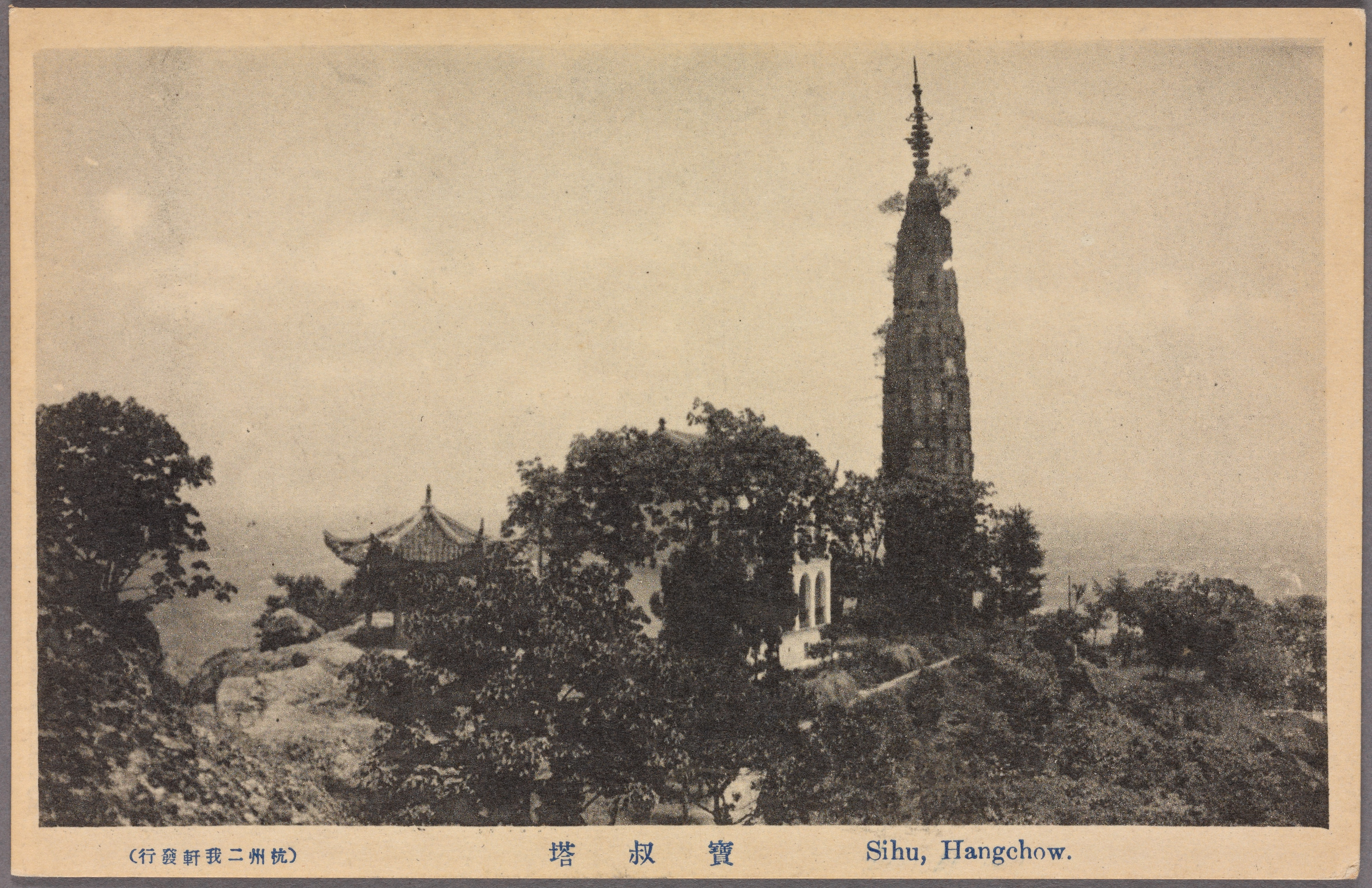 Baochu Pagoda, north of Xi Hu (West Lake).